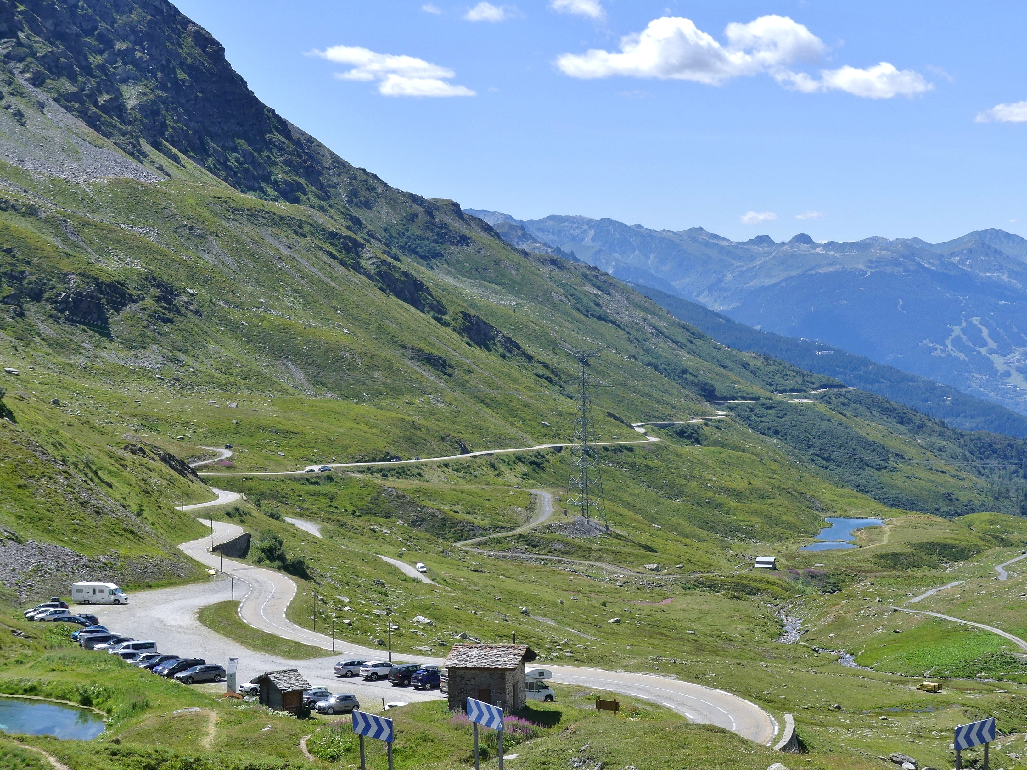 Sight, from the rooftop of the hospice, of the RD 1090 road coming from the Tarentaise valley floor and leading to the Petit-Saint-Bernard pass, in Savoie, France.